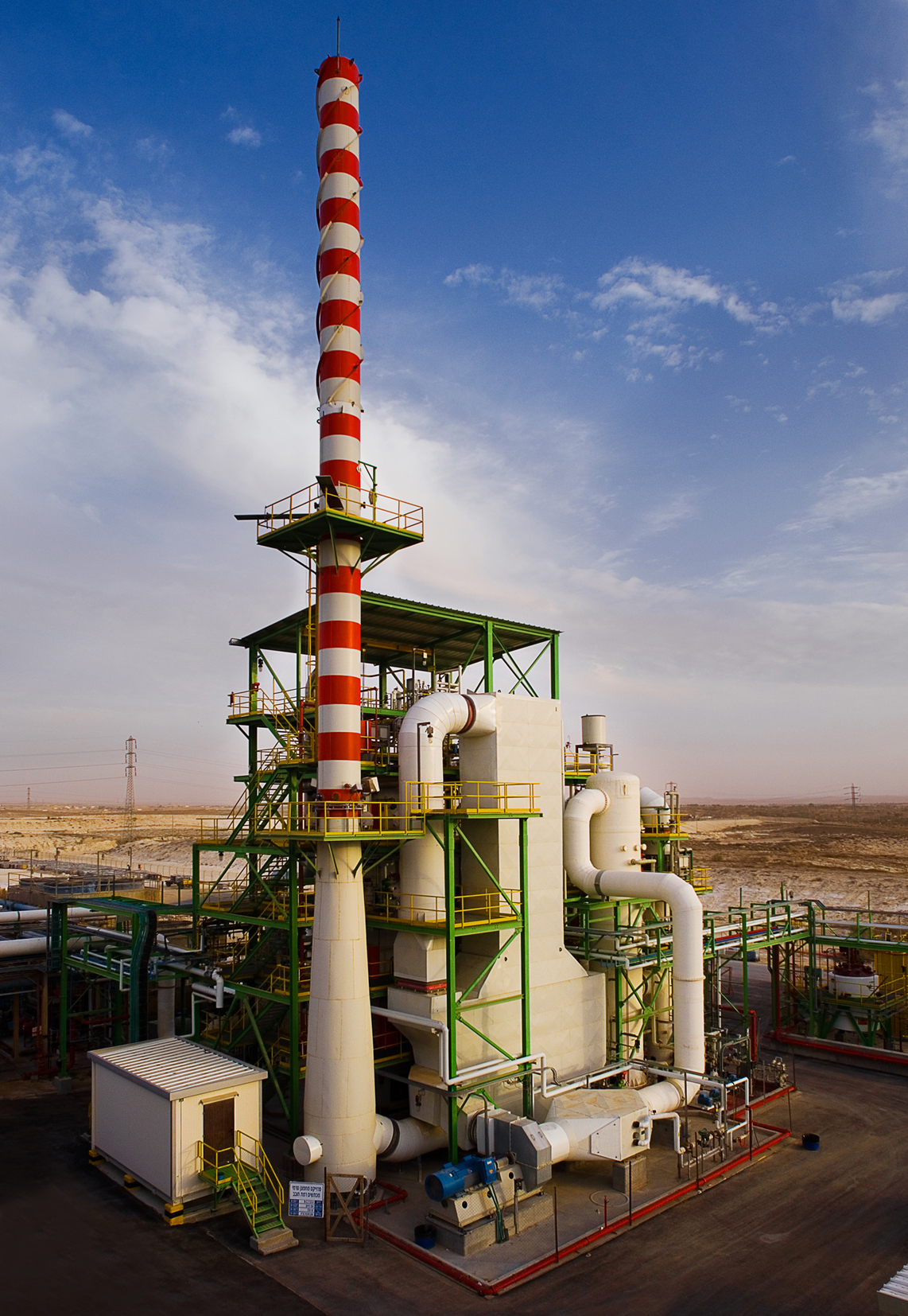 Thermal Oxidizer chemical facility, Neot Hovav, southern Israel.